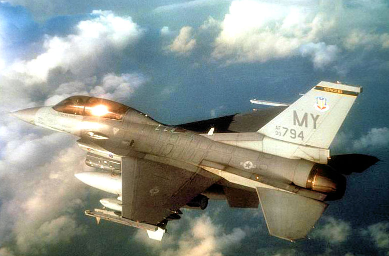 An overhead aerial view of USAF F-16D block 40 #90-0794 from the 69th FS - although still wearing the 307th colorscheme - heads for a bombing mission during an exercise at MCAS Cherry Point on September 1st, 1995. [USAF photo by SSgt Mike Reinhardt] A/C crashed Feb 16, 2000 near Moody AFB, GA. Both pilots ejected safely.